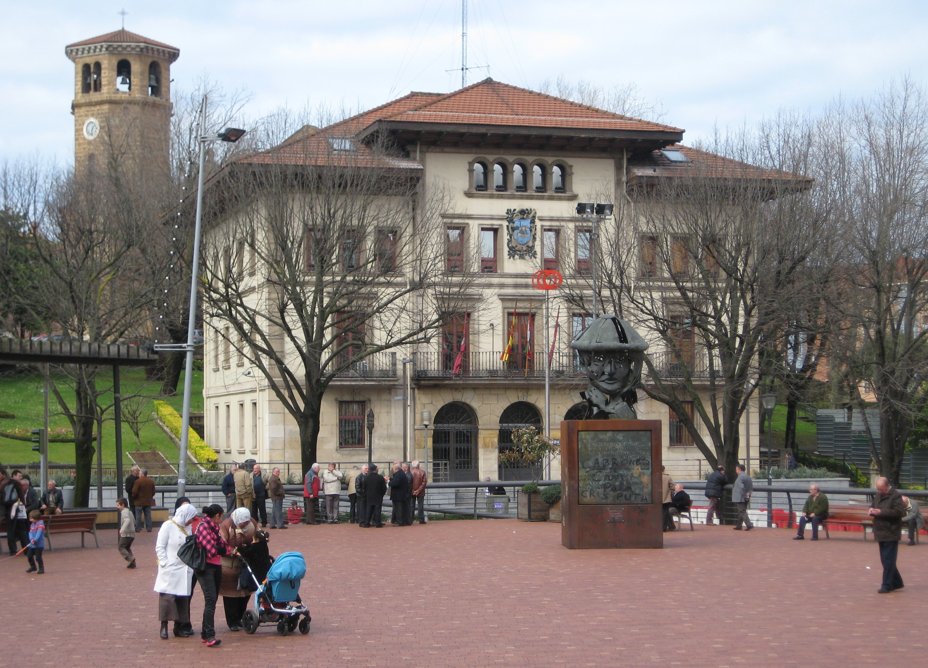 Town hall of Sestao.